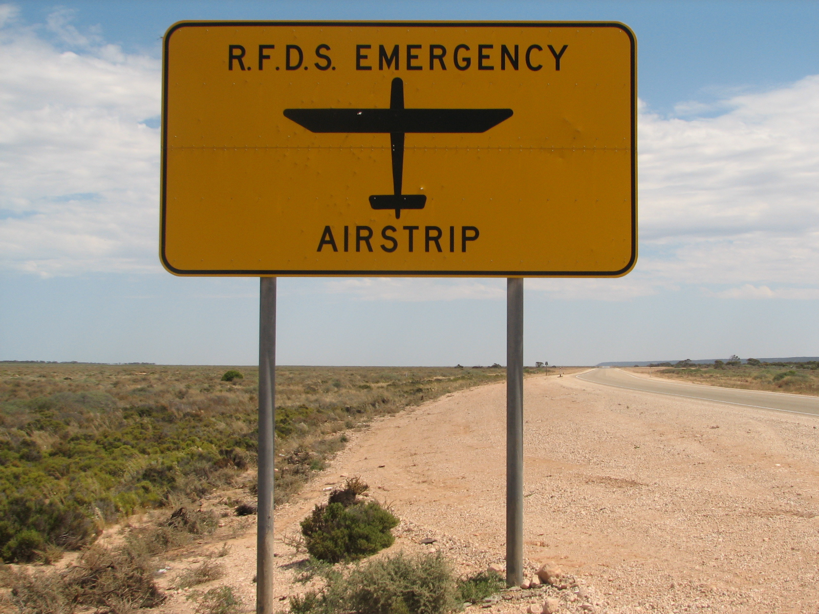 taken by User:Hossen27 on the Nullabor